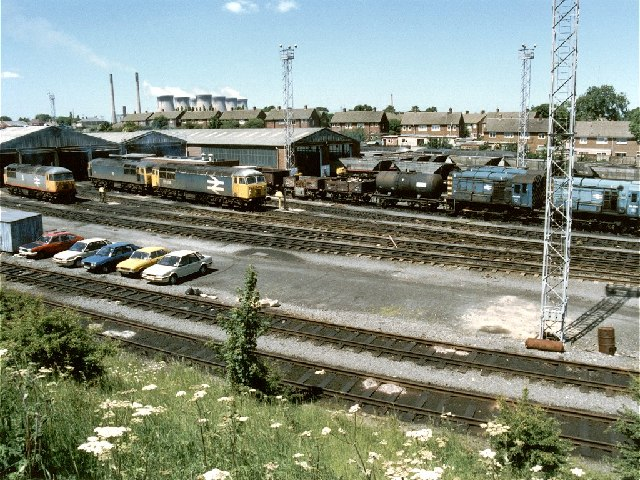 Knottingley Railway Depot. At this time Knottingley was mainly allocated class 56 locomotives, predominantly used for coal traffic to and from the nearby power station